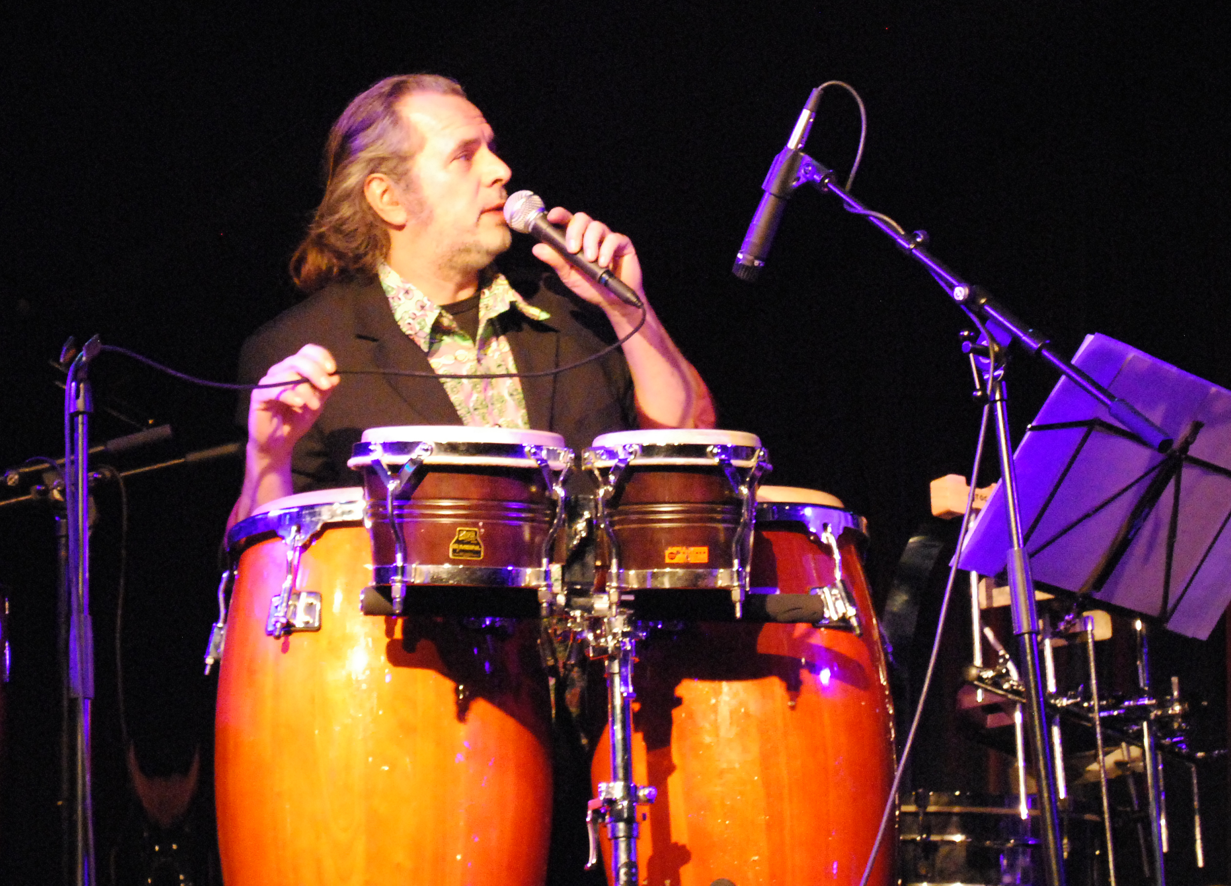 Christian Mühlbacher at a concert with Nouvelle Cuisine, Treibhaus Innsbruck 2009